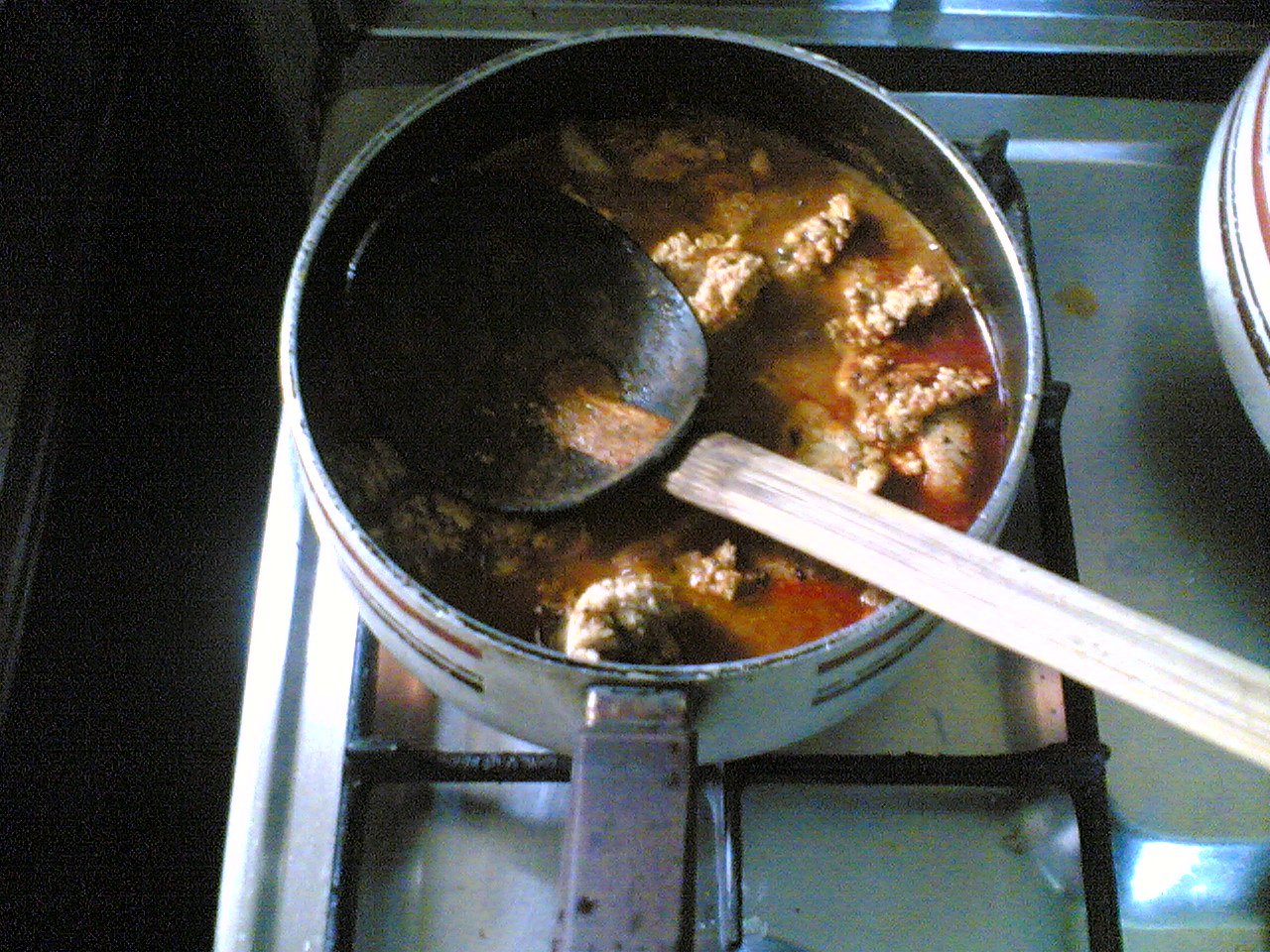 Spicy hot but simple curry cooked in mangalore konkani style. Hot, tangy and sour are dominant flavors. Ingredients are simple too. lots of mustard, chilly powder, tamarind pulp, hing and fish roe (mackarel and any other large fish). Any fish lover will love this dish.